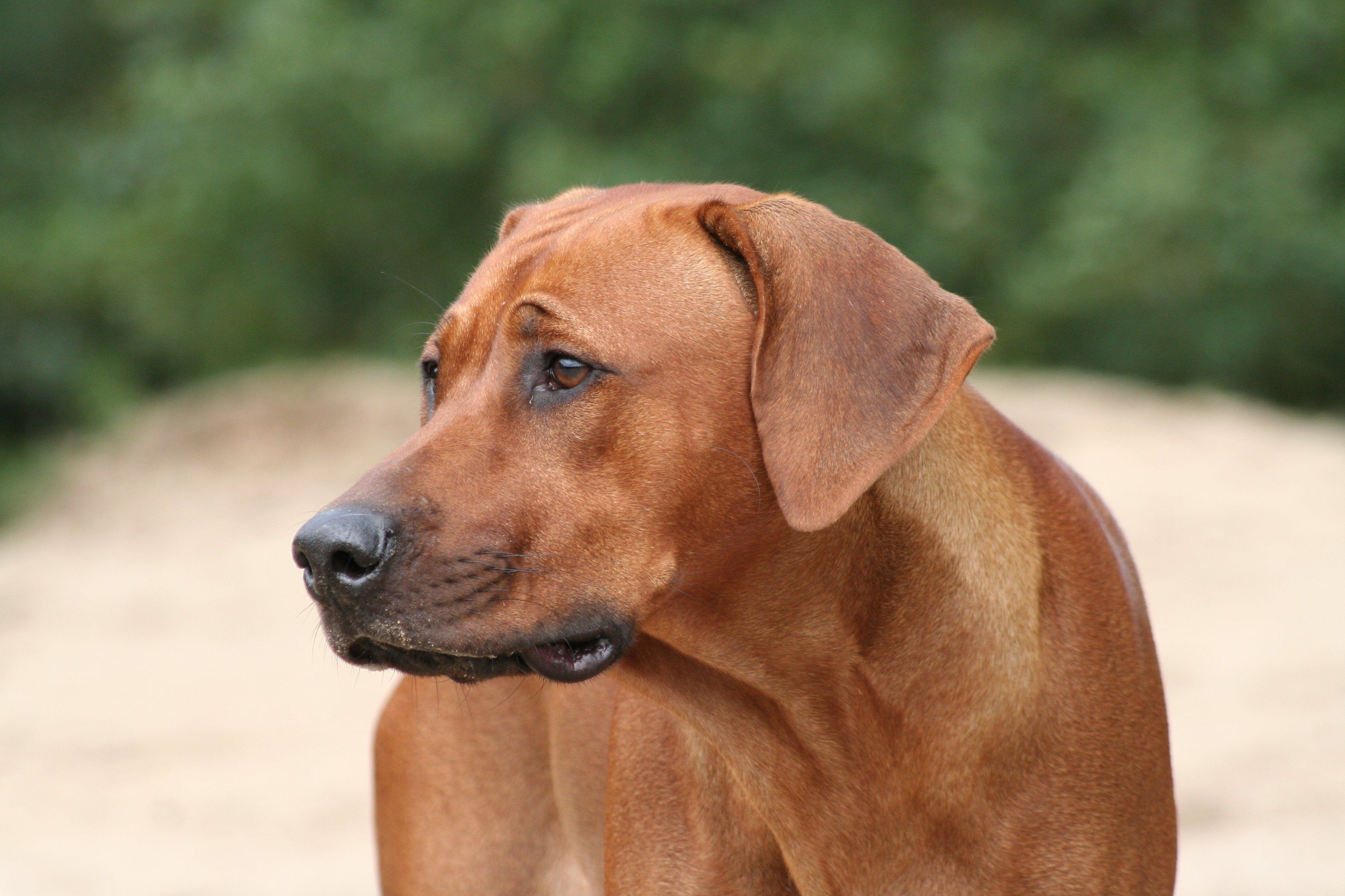 Rhodesian ridgeback head study